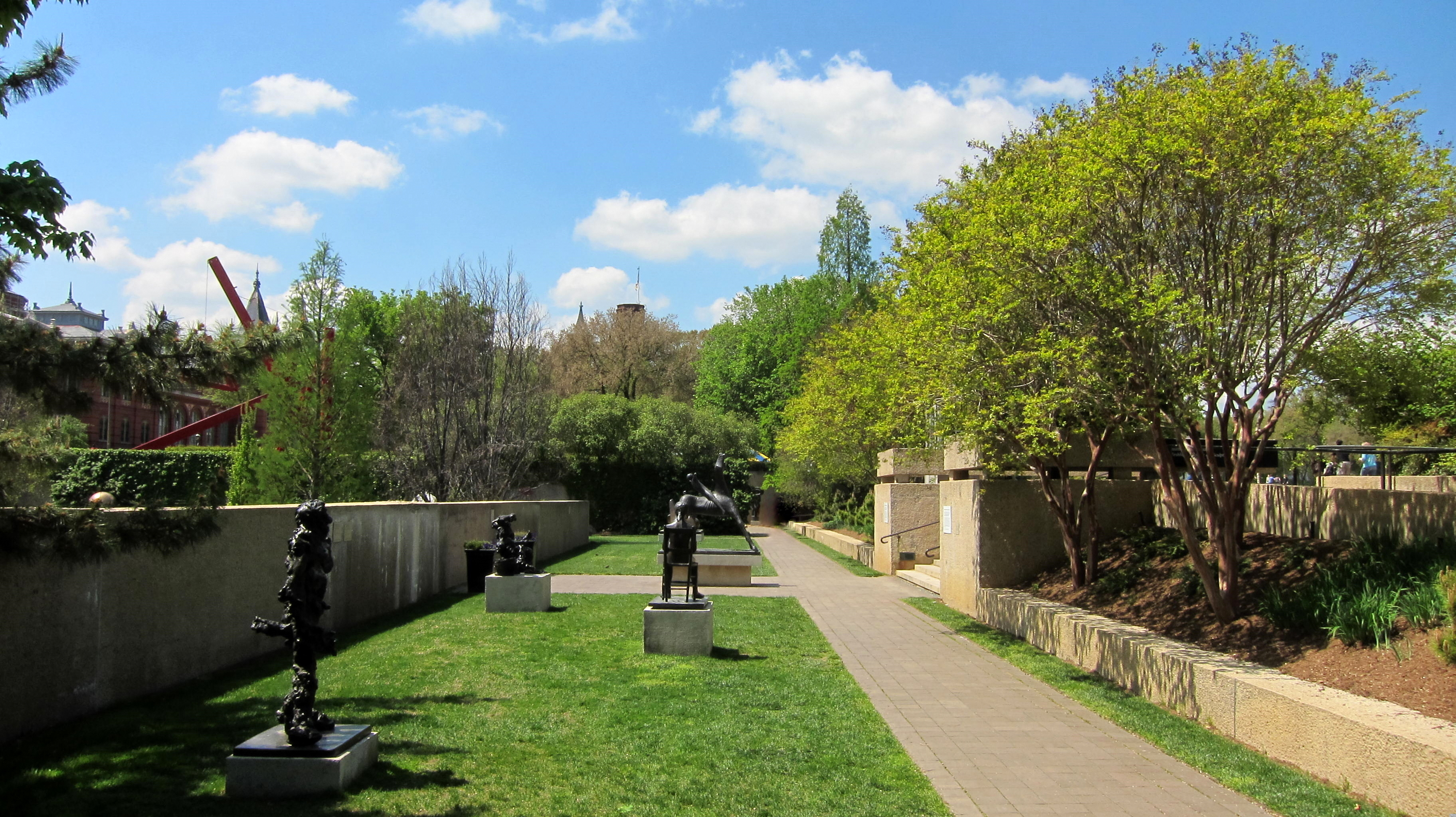 The Hirshhorn Museum's Sculpture Garden, located on the National Mall in Washington, D.C.